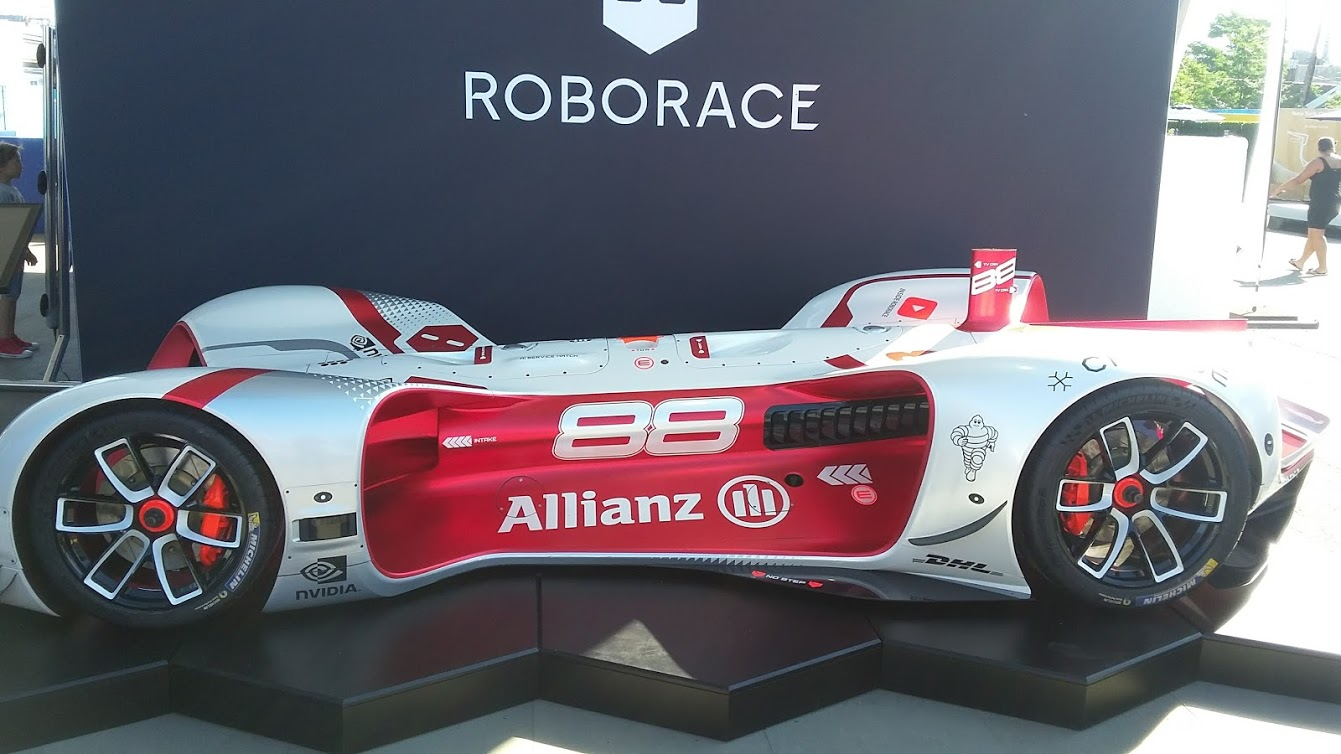 Picture of the Roborace car on display at the 2017 NYC ePrix